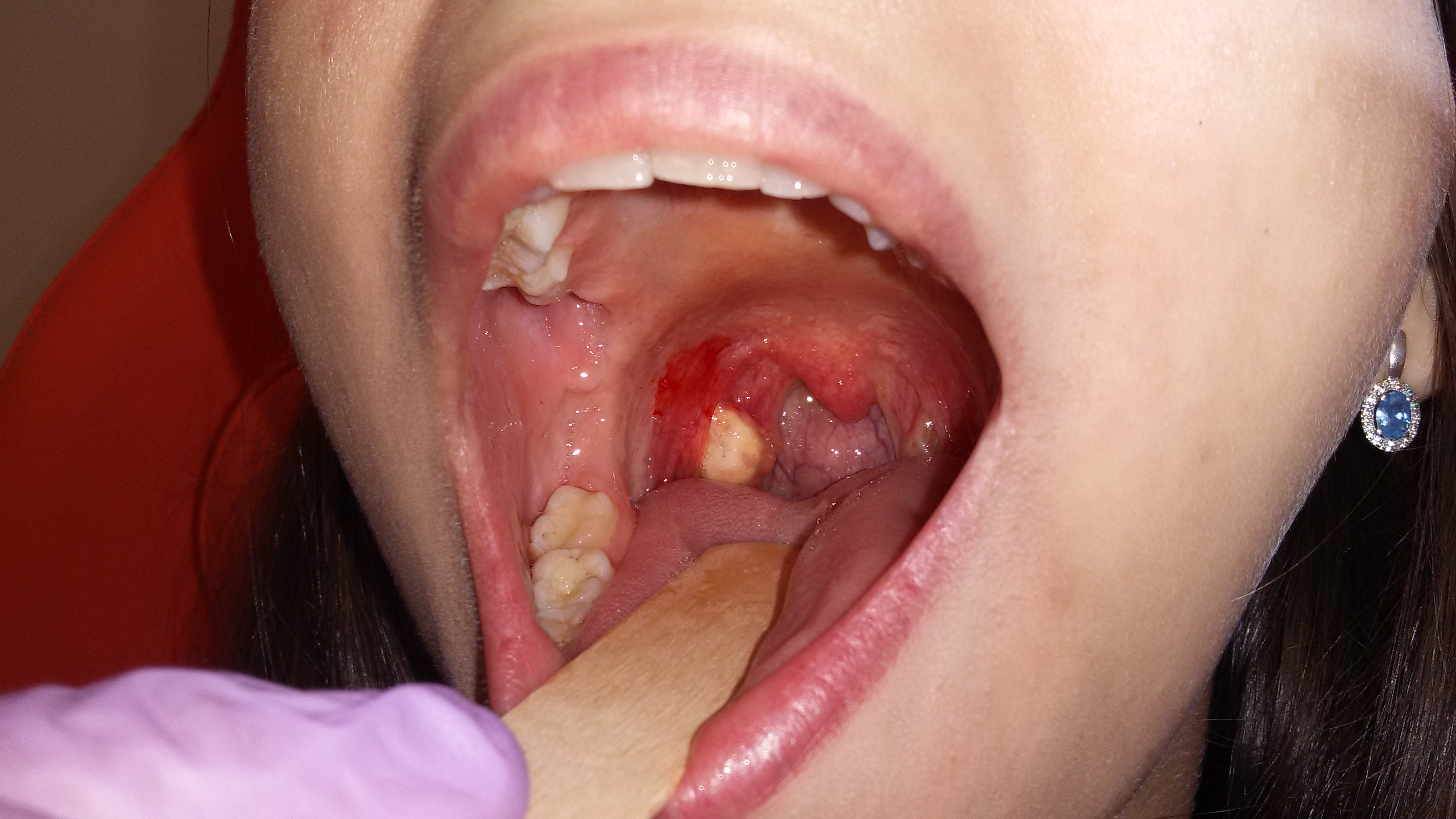 Used nitrospray on both tonsils (-196C)